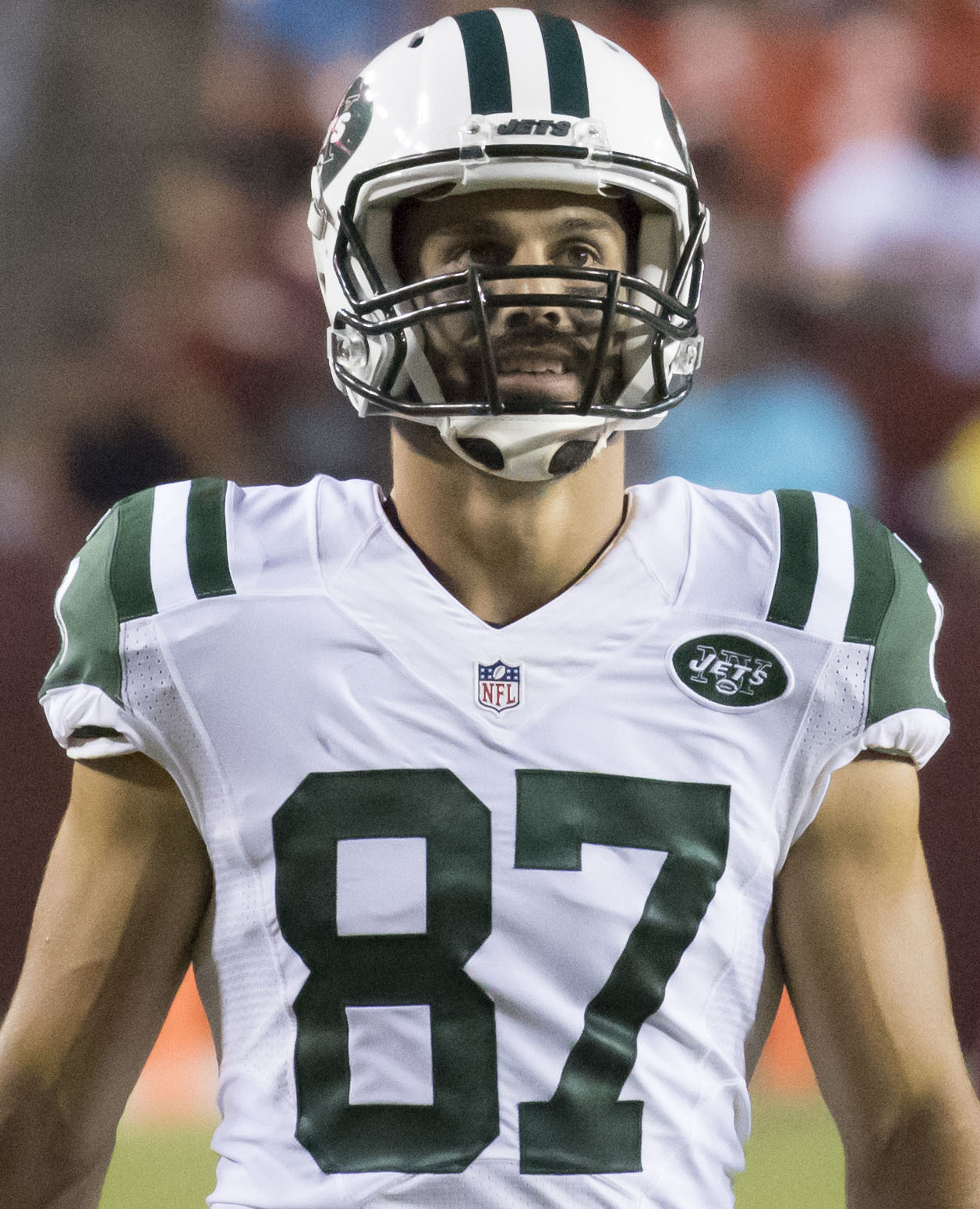 Jets at Redskins 8/19/16